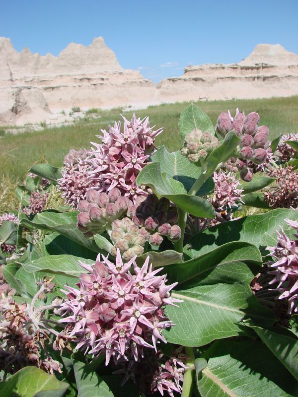 Asclepias speciosa growing in the parking area, it reminded me of a milkweed back in Iowa that we used to harvest monarch larvae from. I think it's my favorite shot from the Badlands.